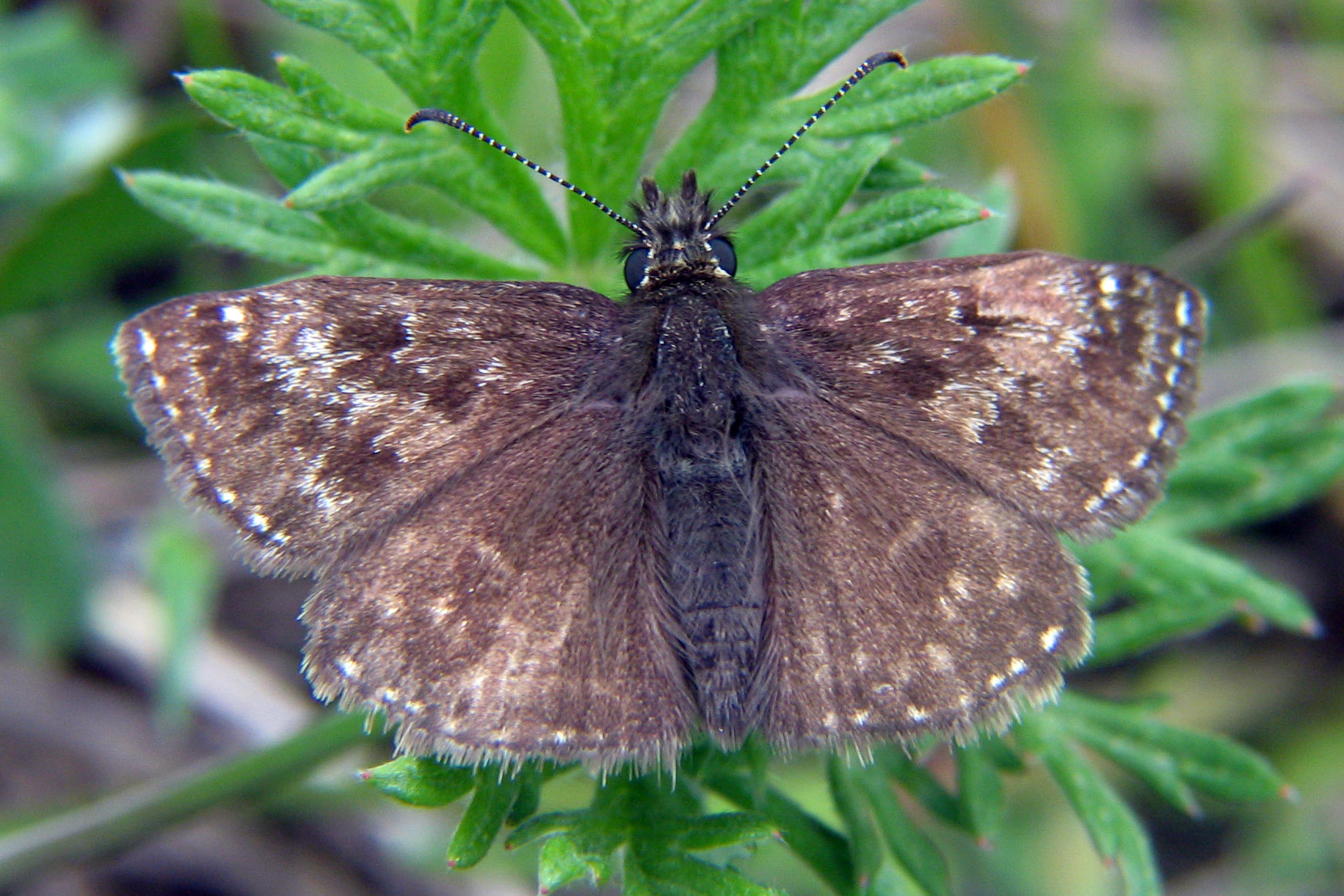 Erynnis tages, photographed in southern Romania, hilly area, found in a clearing near a river